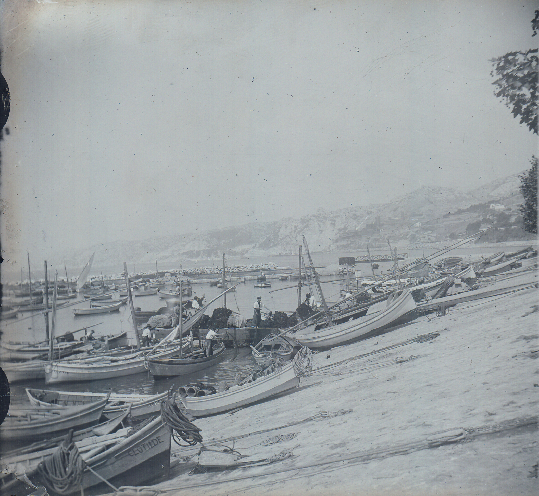 Port of L'Estaque (Marseille) 1906